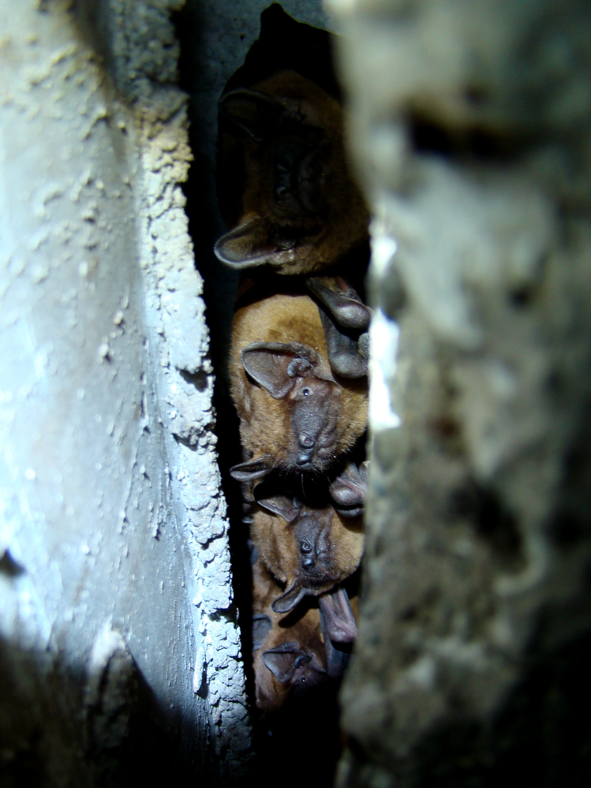 Common noctule (Nyctalus noctula) in a crevice of building.